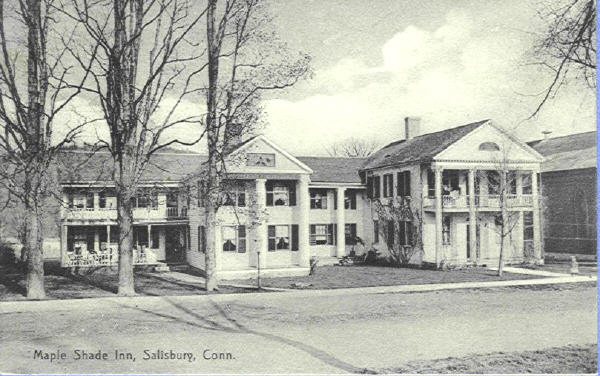 Postcard: Maple Shade Inn, Salisbury, Connecticut, postmarked in 1908